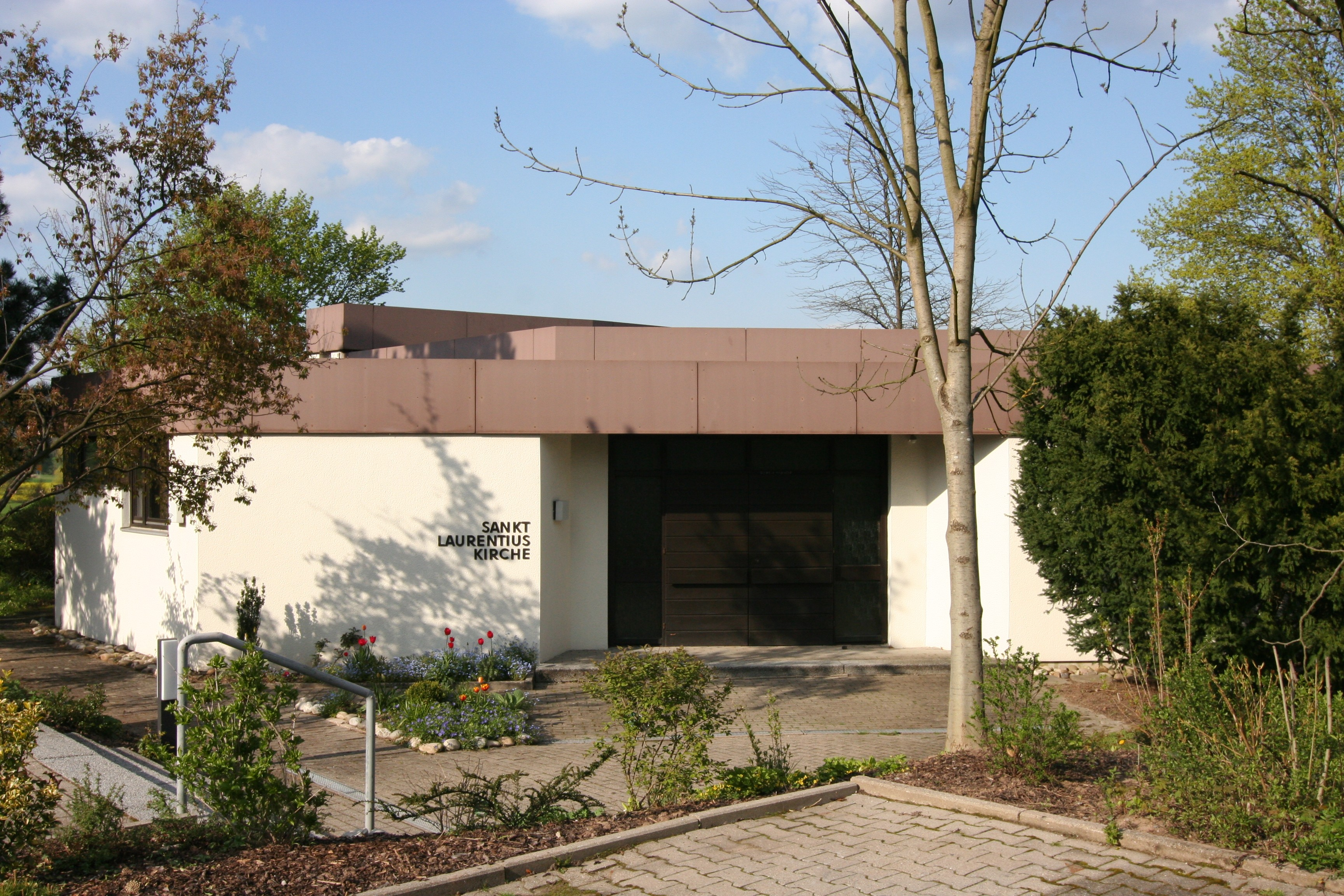 The Roman Catholic St Lawrence church in Lehrensteinsfeld